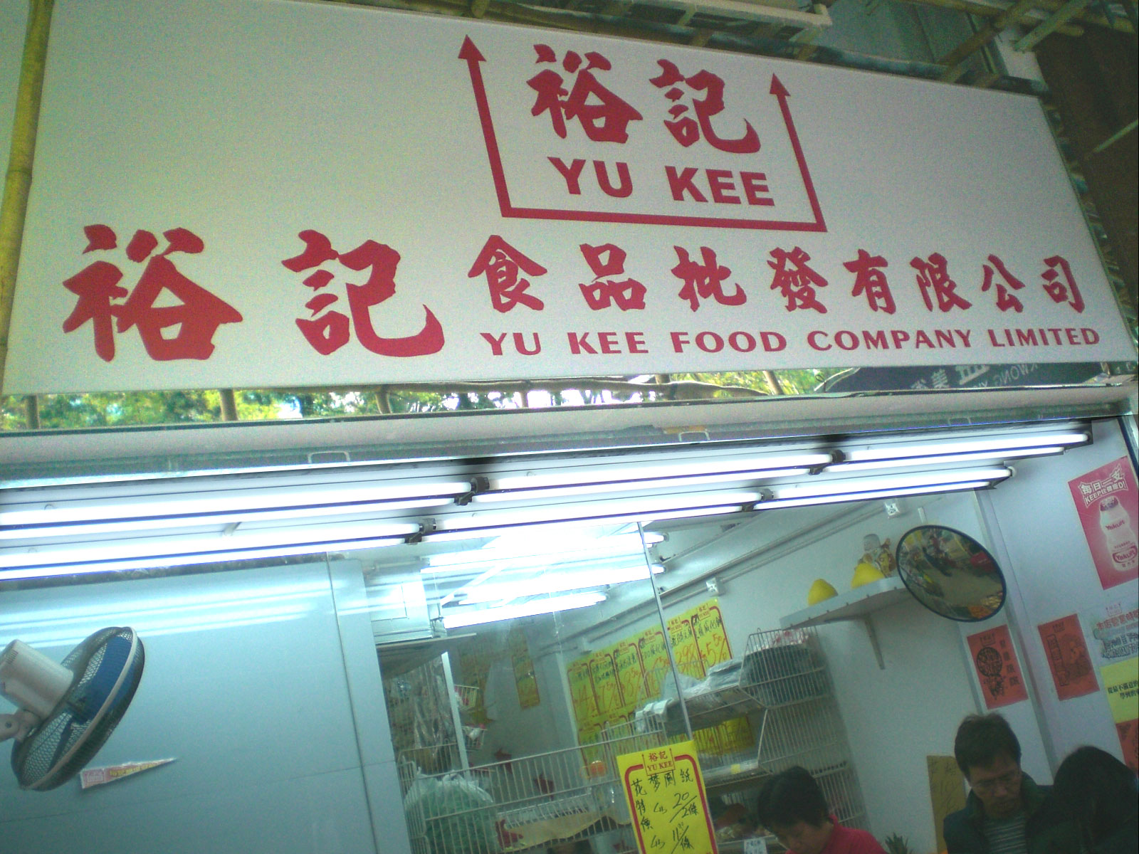 裕記食品旺角洗衣街分店 YU KEE Food Company Limited, Sai Yee Street, Mong Kok, Hong Kong.